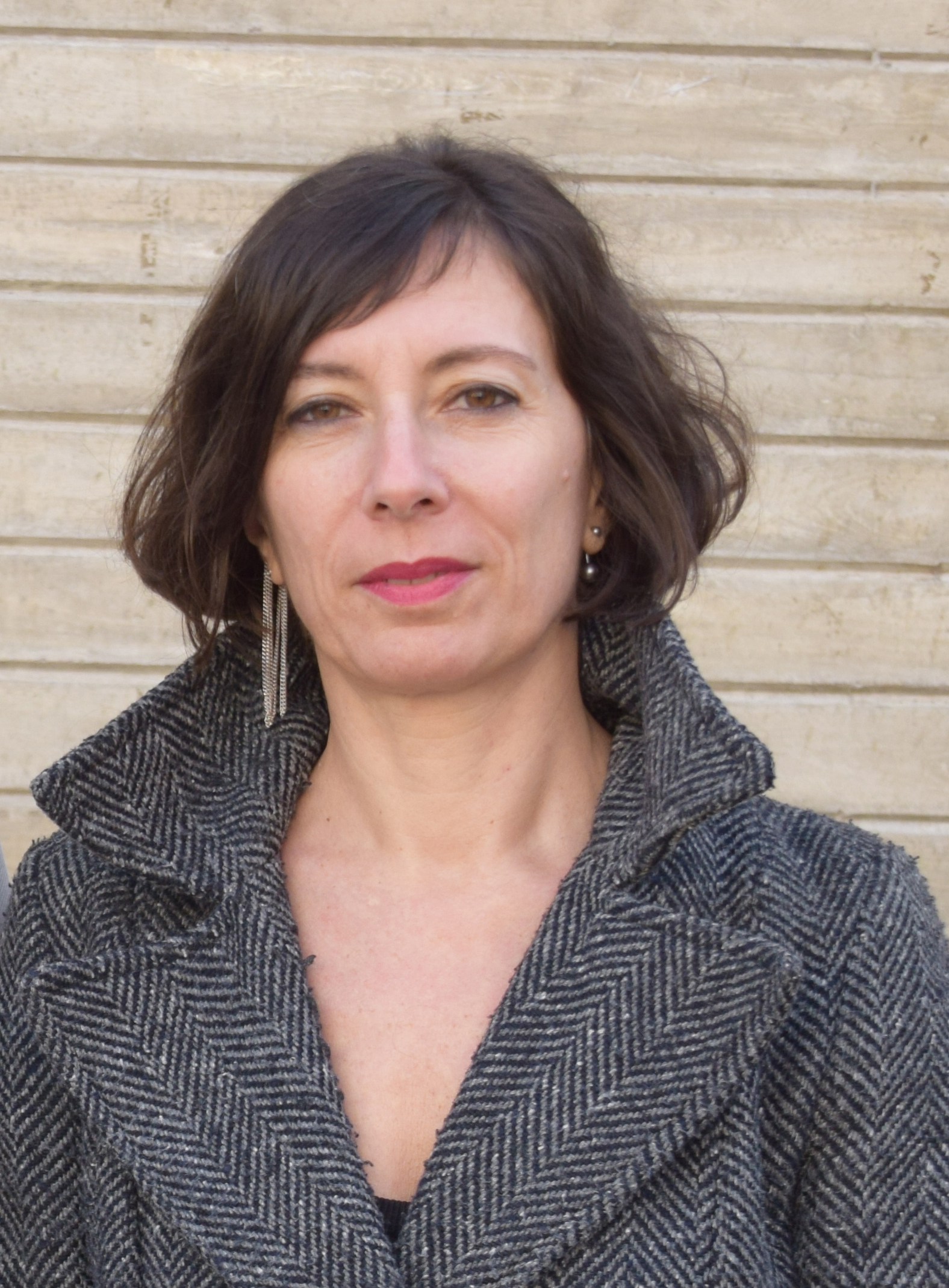 Simona Levi in May 2017